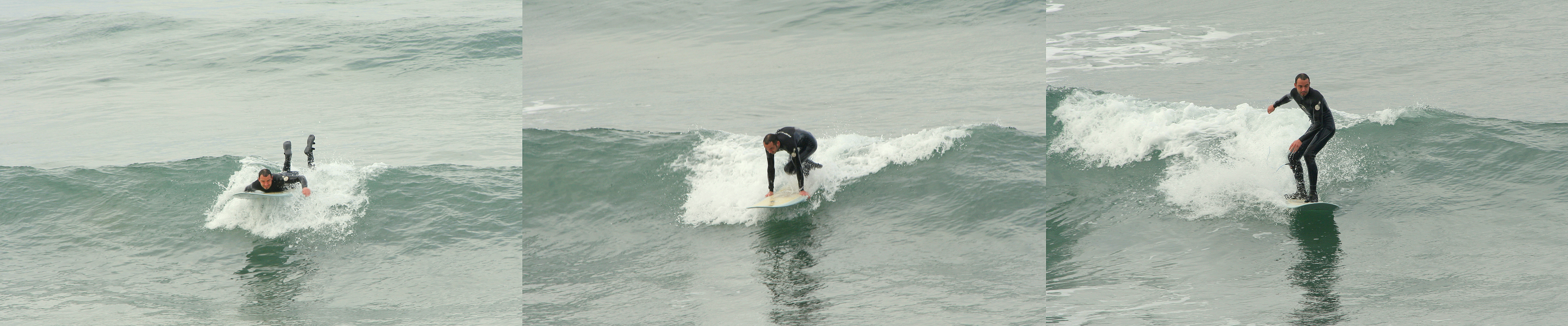 Take off with a longboard, a tecnique to take a wave in surfing.